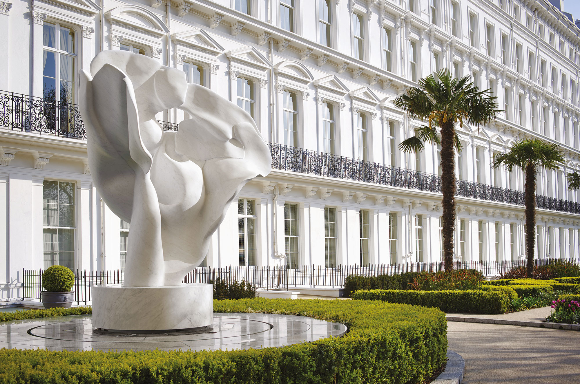 The Lancasters in Bayswater, London featuring the 'Tempesta' statue